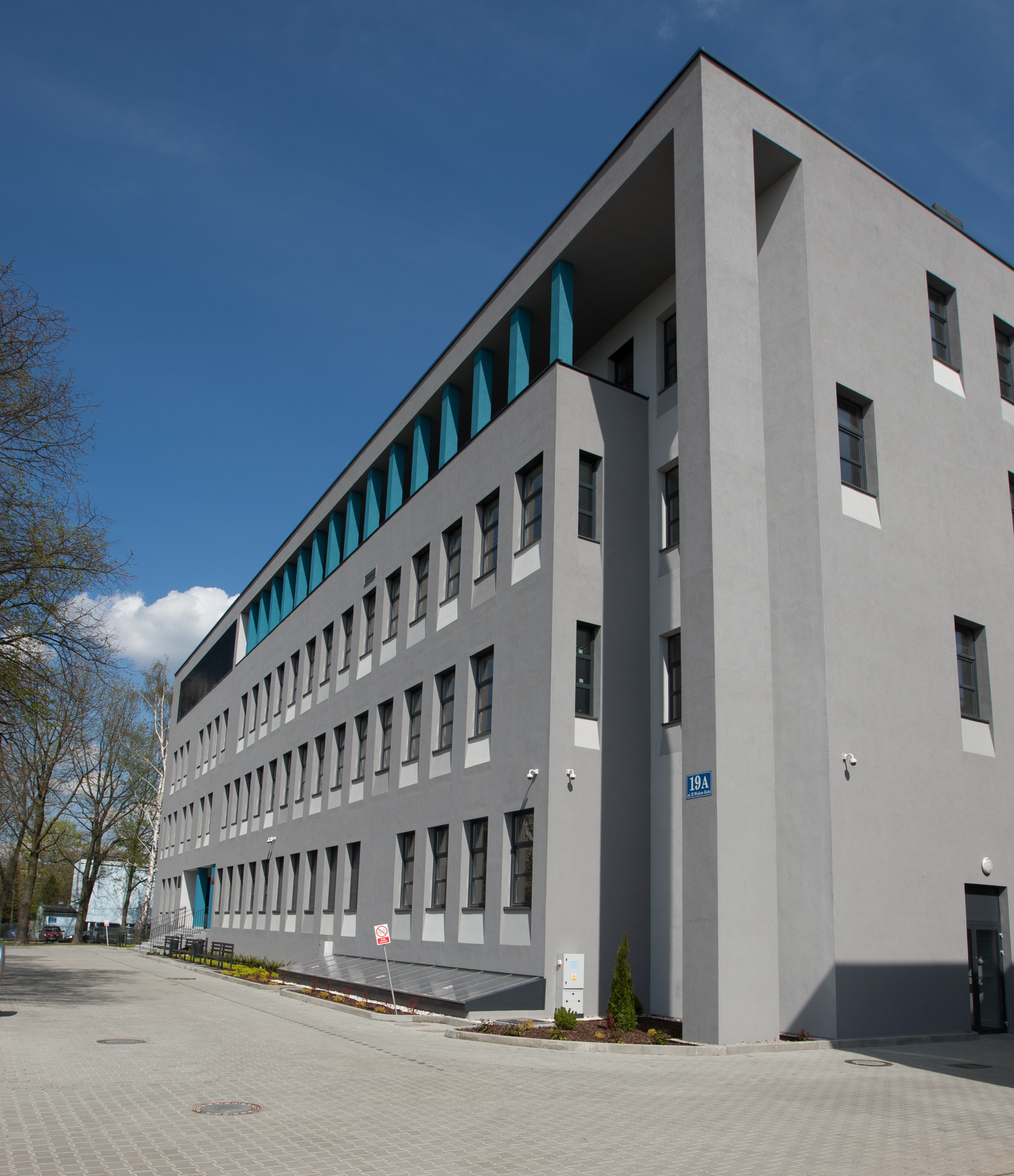 Fot. Paweł Małecki